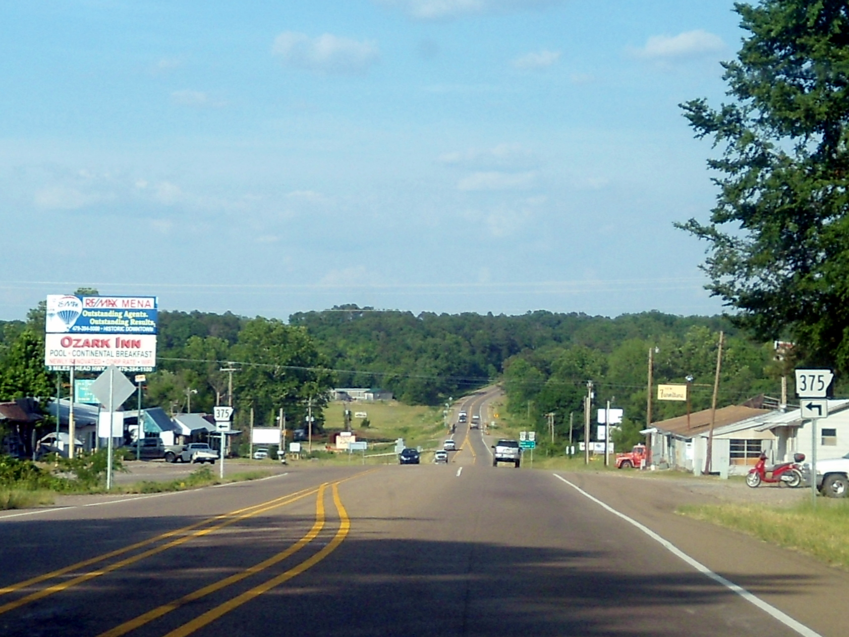 Highway 375 southern terminus at US 59/US 71 at Potter Junction, Arkansas.